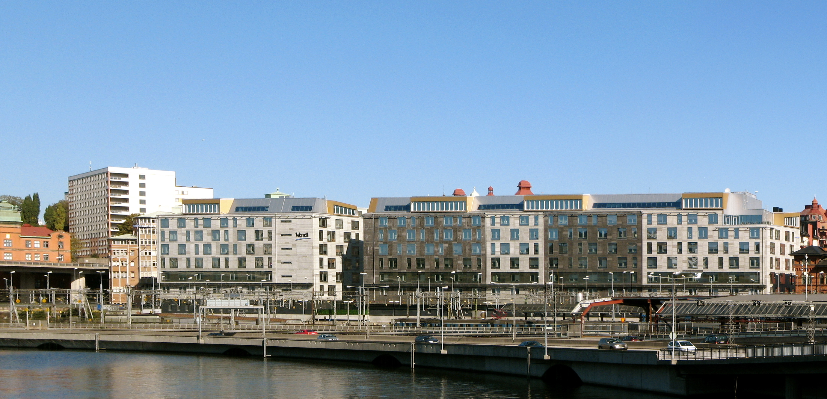 Flat Iron Building, Stockholm.